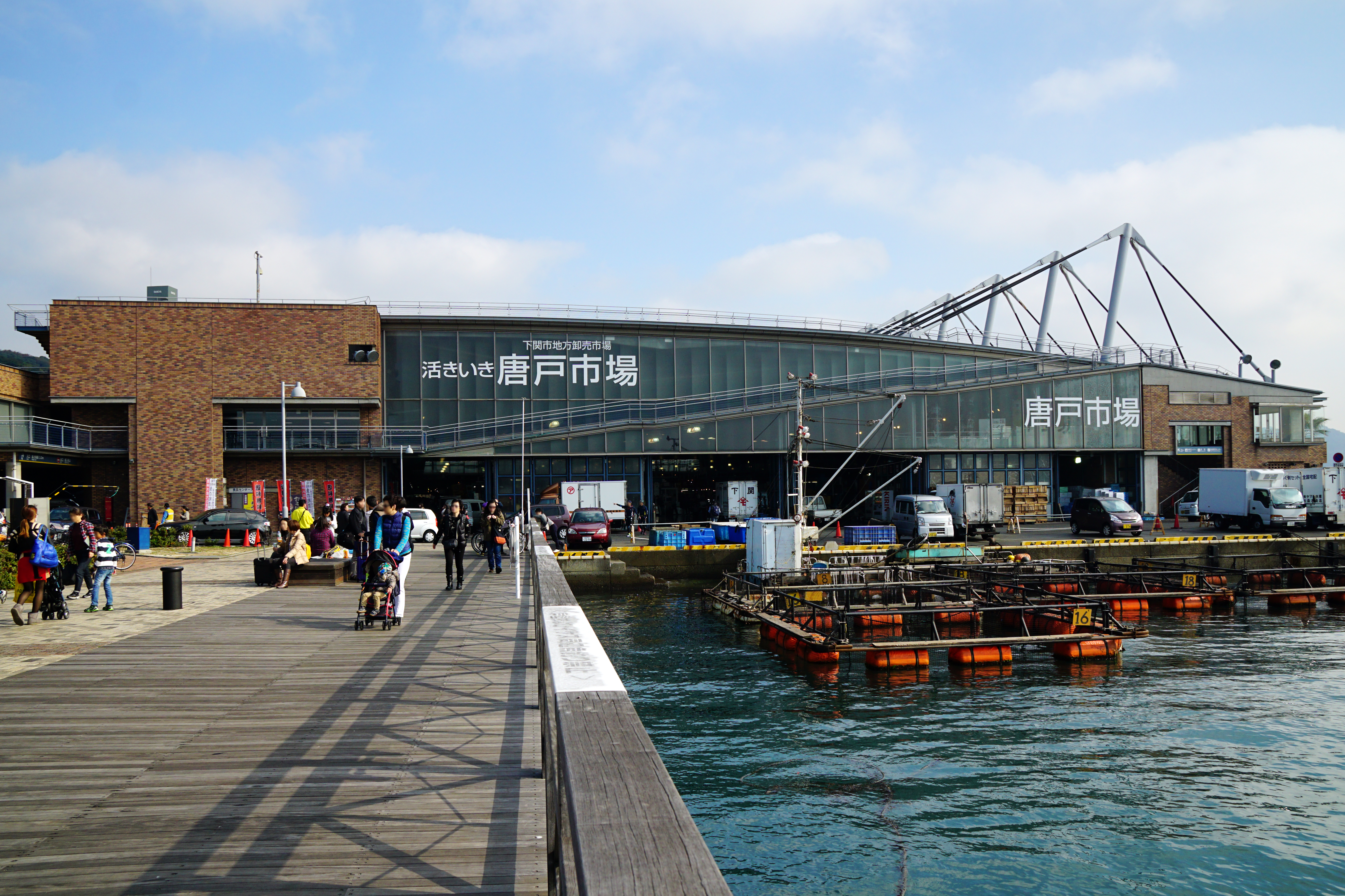 Karato Fish Market in Shimonoseki, Yamaguchi prefecture, Japan.